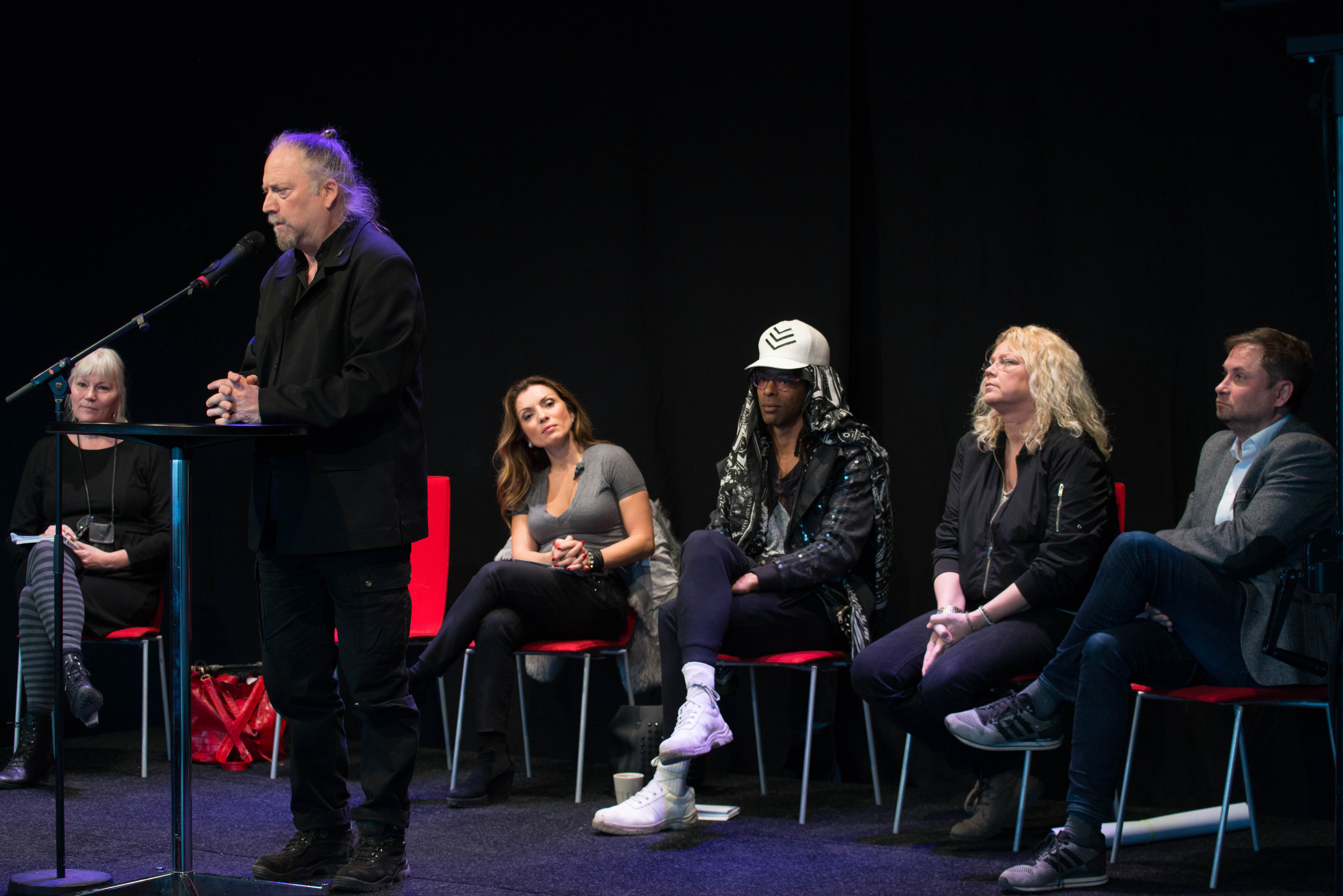 A rally in support of threatened artists and writers at the Kulturhuset Stadsteatern in Stockholm, February 14th 2015.